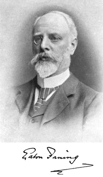 1901 photograph of Eaton Faning, Public domain.